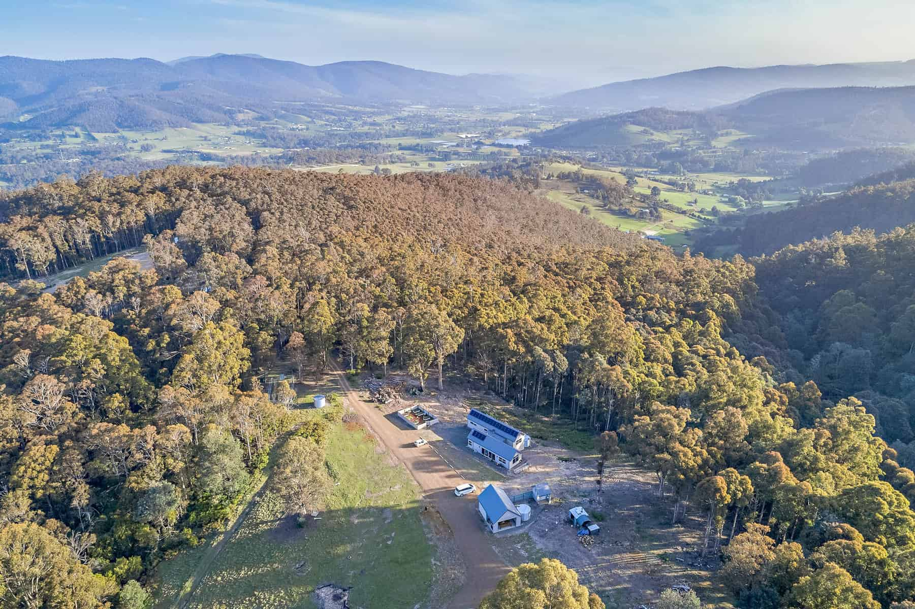 Aerial shot of Lucaston, Tasmania, with Pilgrim Hill in the foreground.